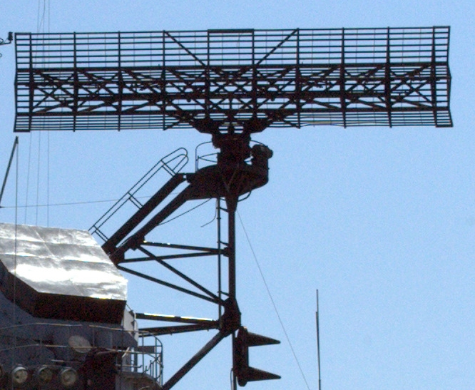 View of the SPS-43 radar of aboard the museum ship USS Hornet (CVS-12) at the former NAS Alameda.